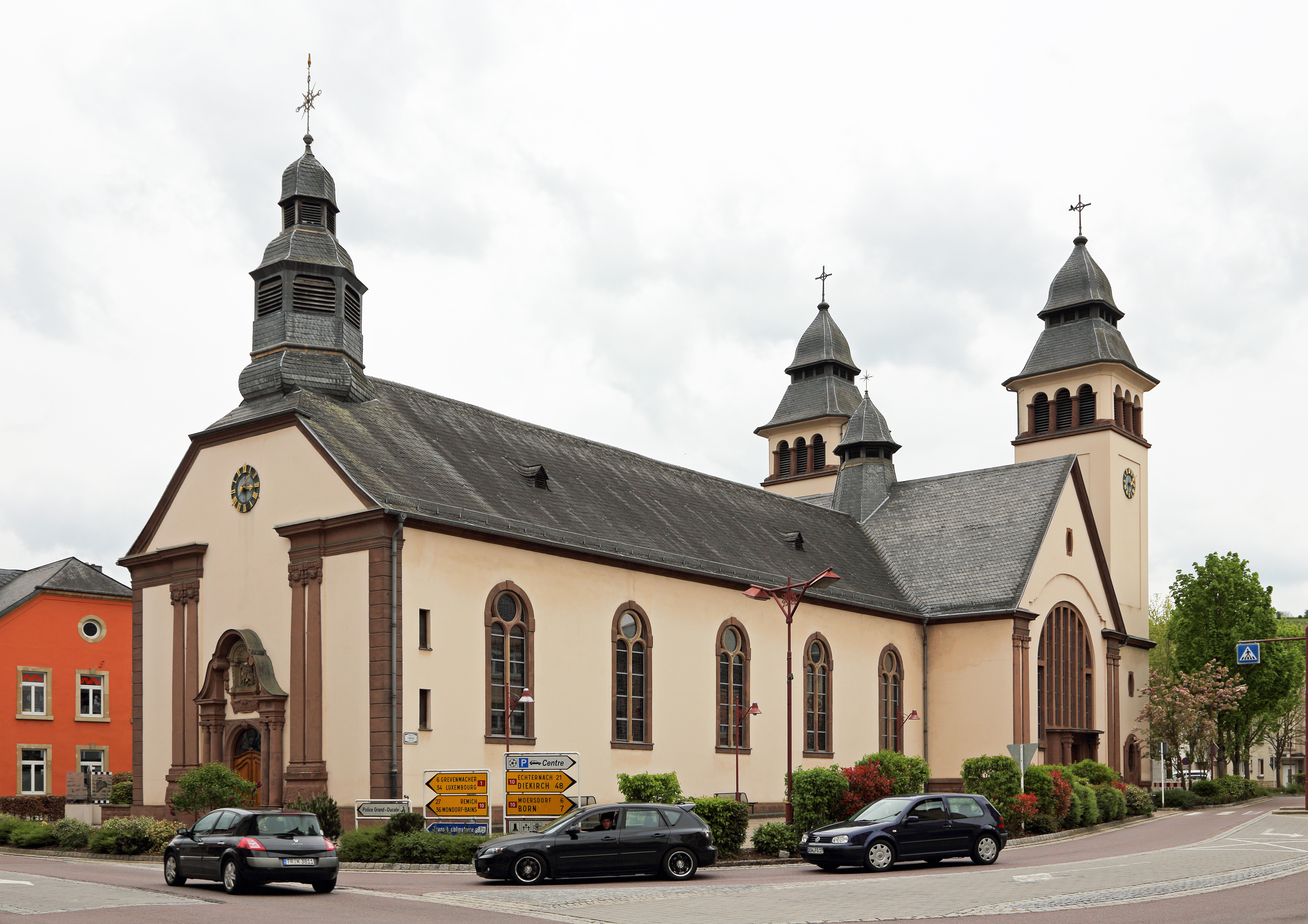 Wasserbillig (Grand Duchy of Luxemburg): St Martin's church